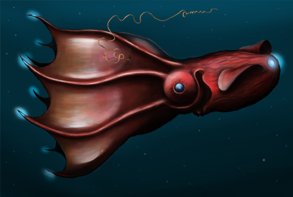 Adult vampire squid (Vampyroteuthis infernalis)